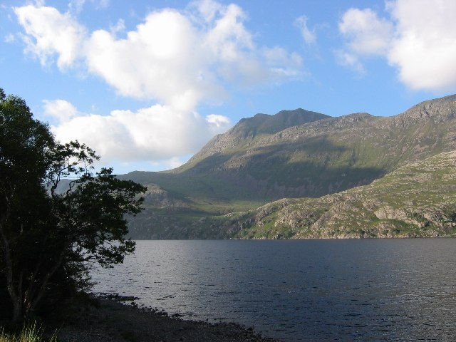 Loch Maree. Loch Maree and Slioch from near the car park at NH001650